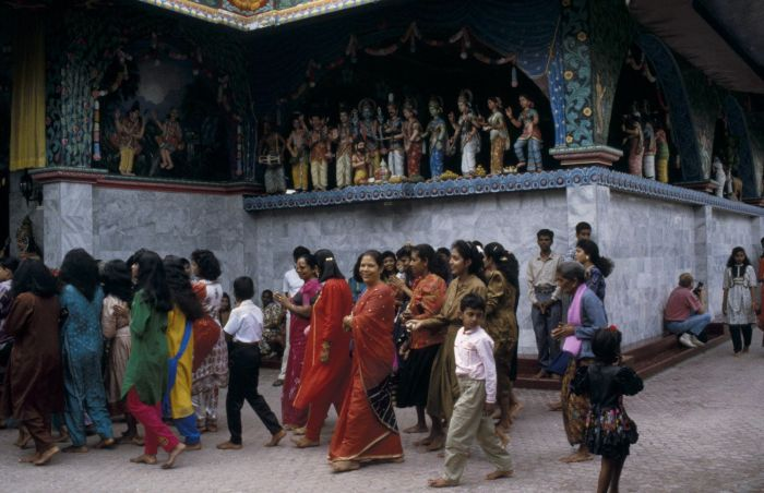 Women walking around the Hindu temple 'Sri Mariamman'